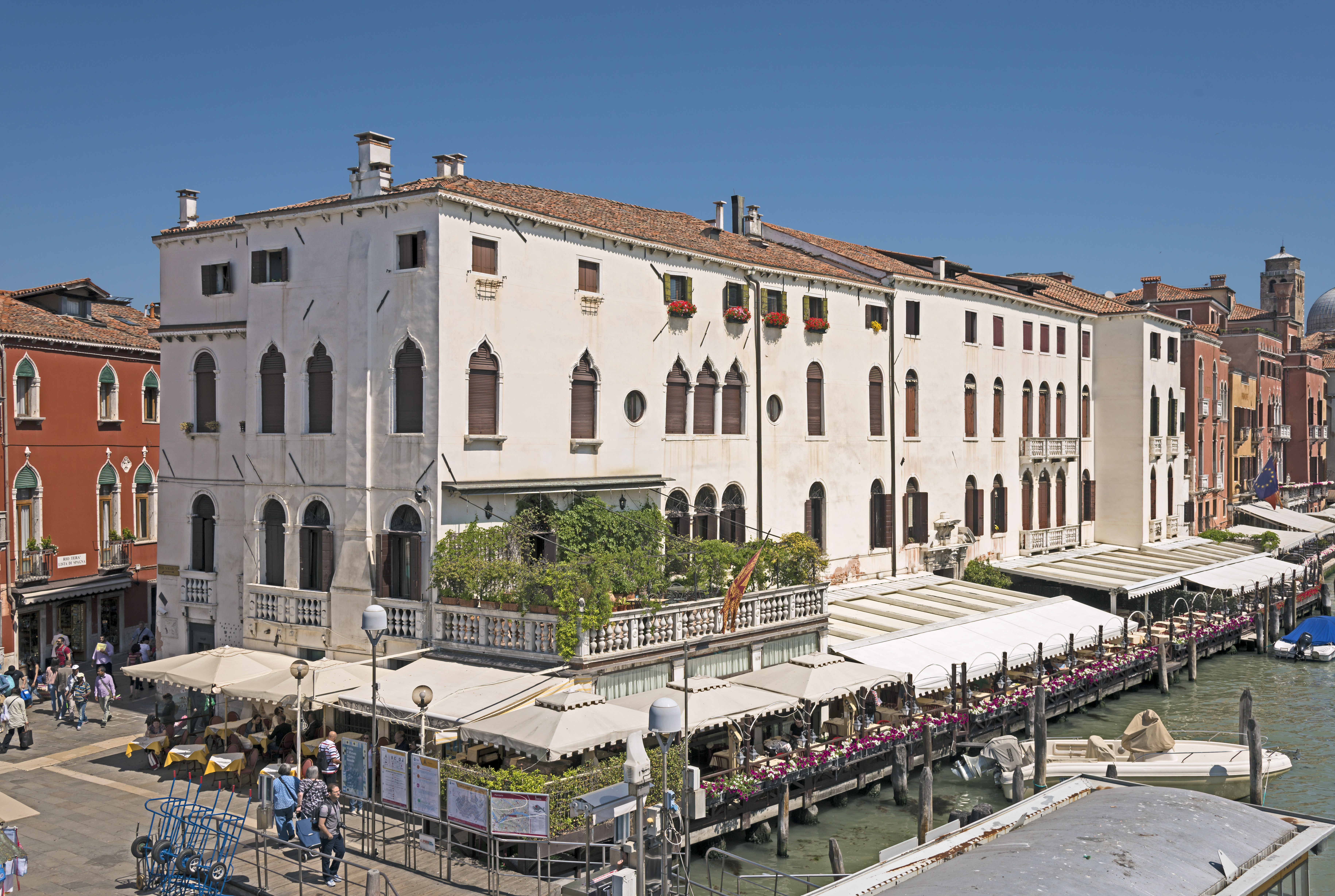 Palace Calbo Crotta in Venice – Facade on Grand Canal